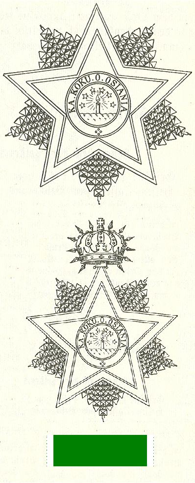 Star, cross and ribbon of the Order of the Star of Oceania